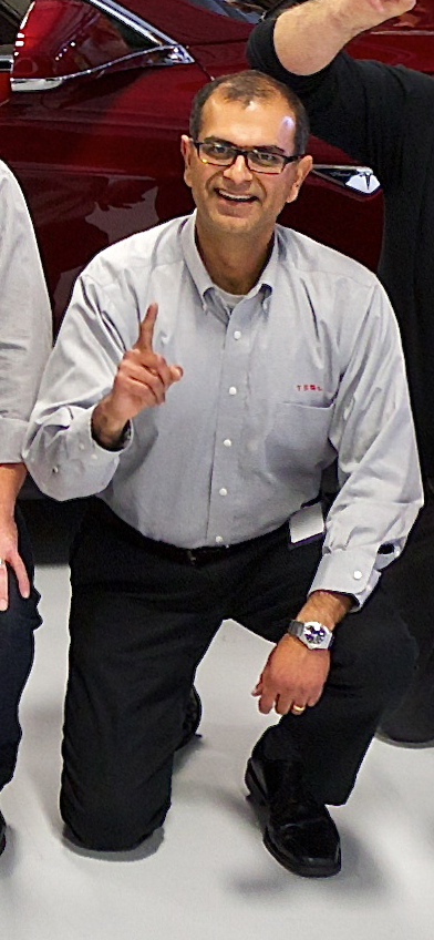 Deepak Ahuja. Chief Financial Officer, Tesla Motors. Tesla HQ Salute. With one finger up for the first Model S delivery, VIN 0001, at the Deer Park HQ. Driving inside is OK for an EV. =)